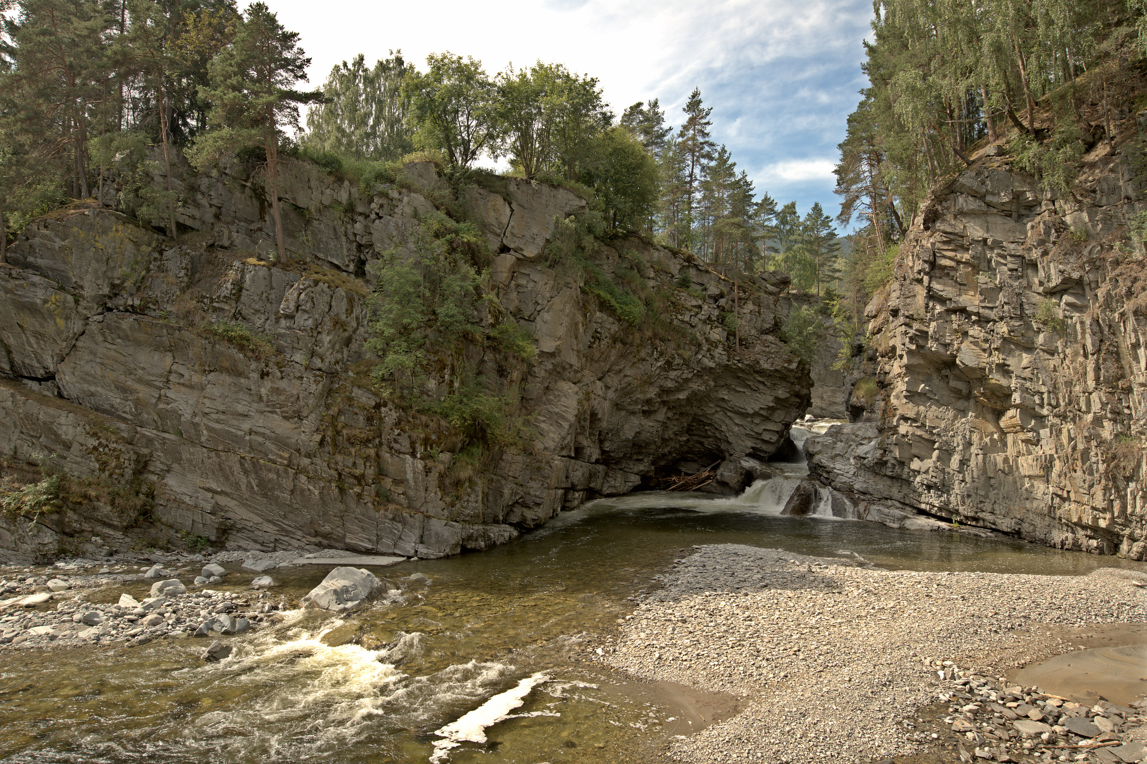 Fryajuvet right next to the abandoned Frya power station